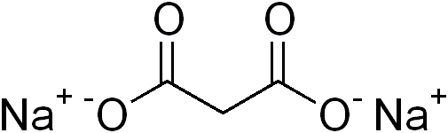 chemical structure of disodium malonate